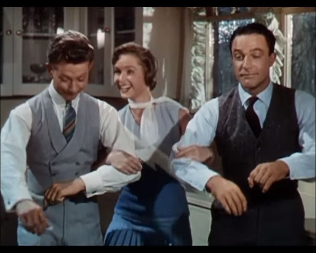 Donald O’Connor, Debbie Reynolds és Gene Kelly in the 1952 film Singin' in the Rain.